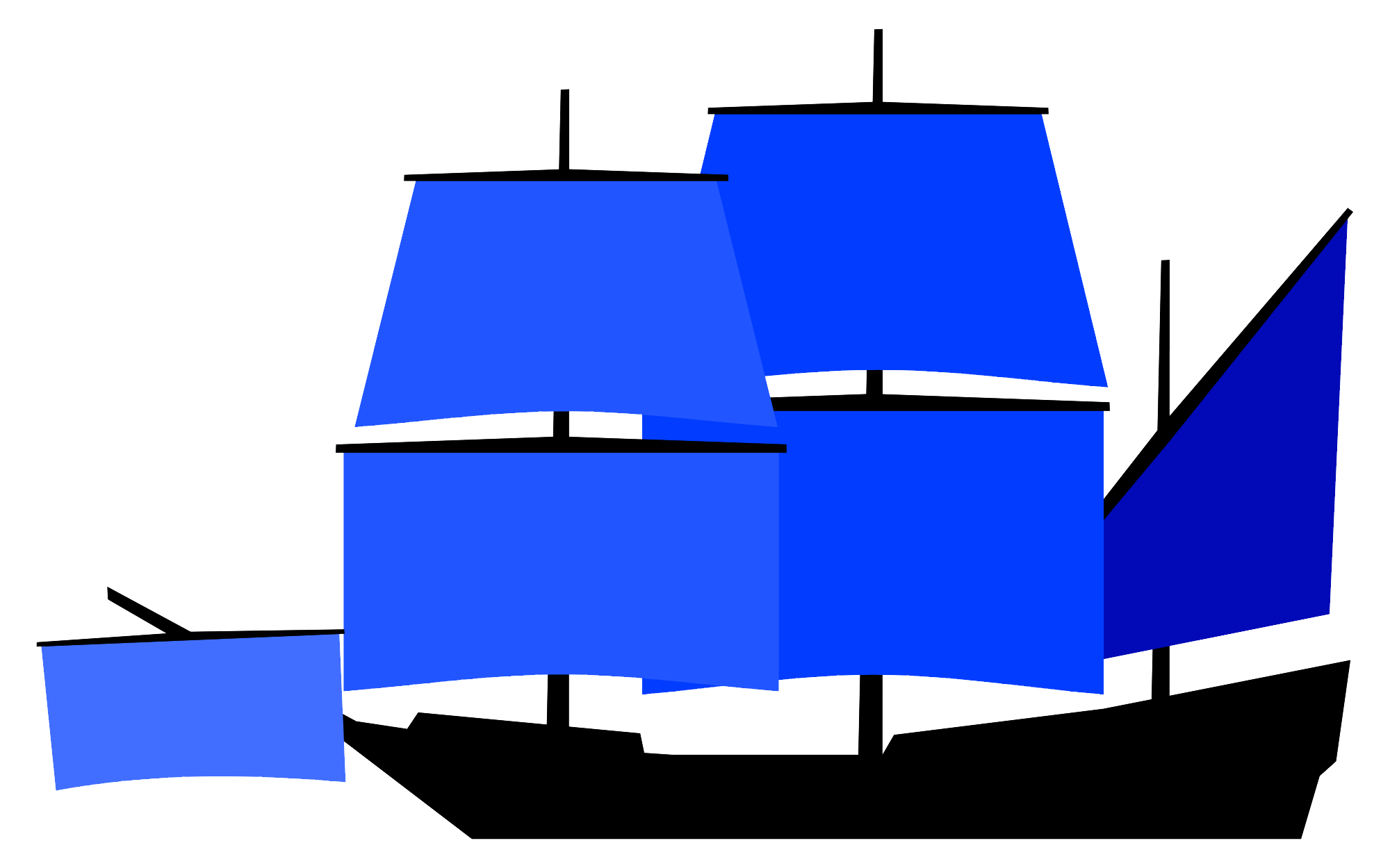 Schematic view of the sail plan that was the defaul ship-rig for centuries, Carrack.